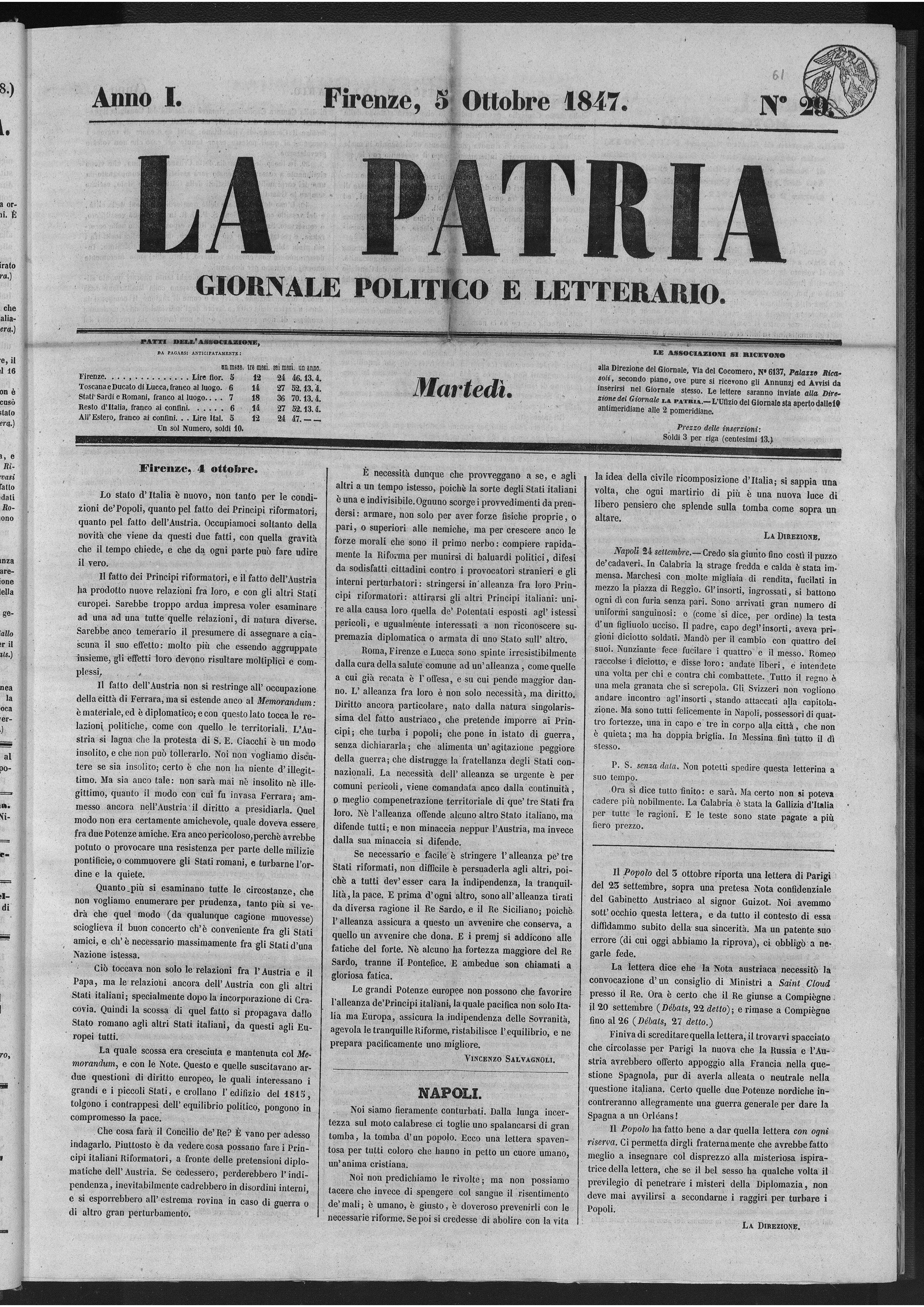 first page of risorgimental newspaper La Patria n°29 5 october 1847